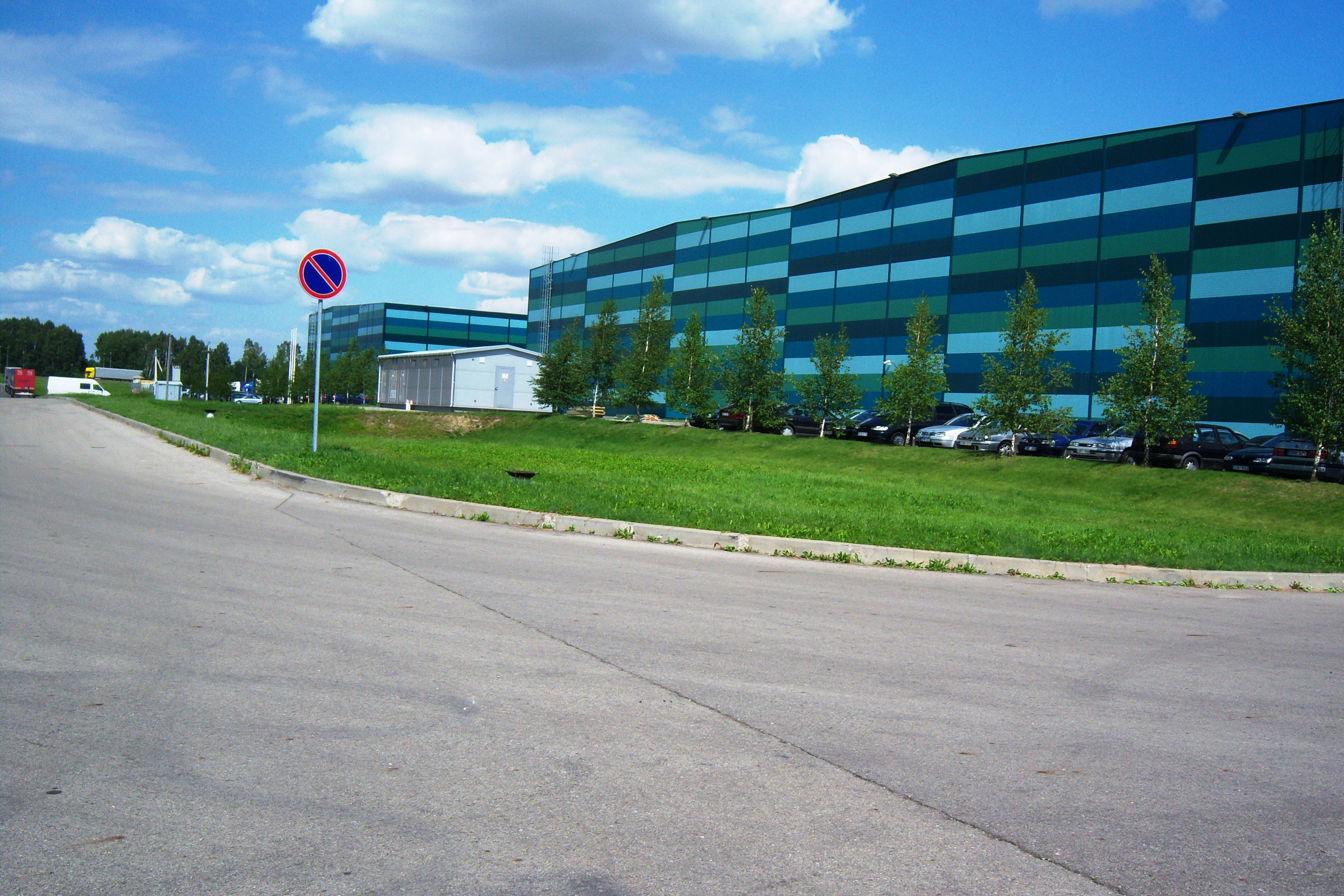 Kaunas Free Economic Zone, Lithuania